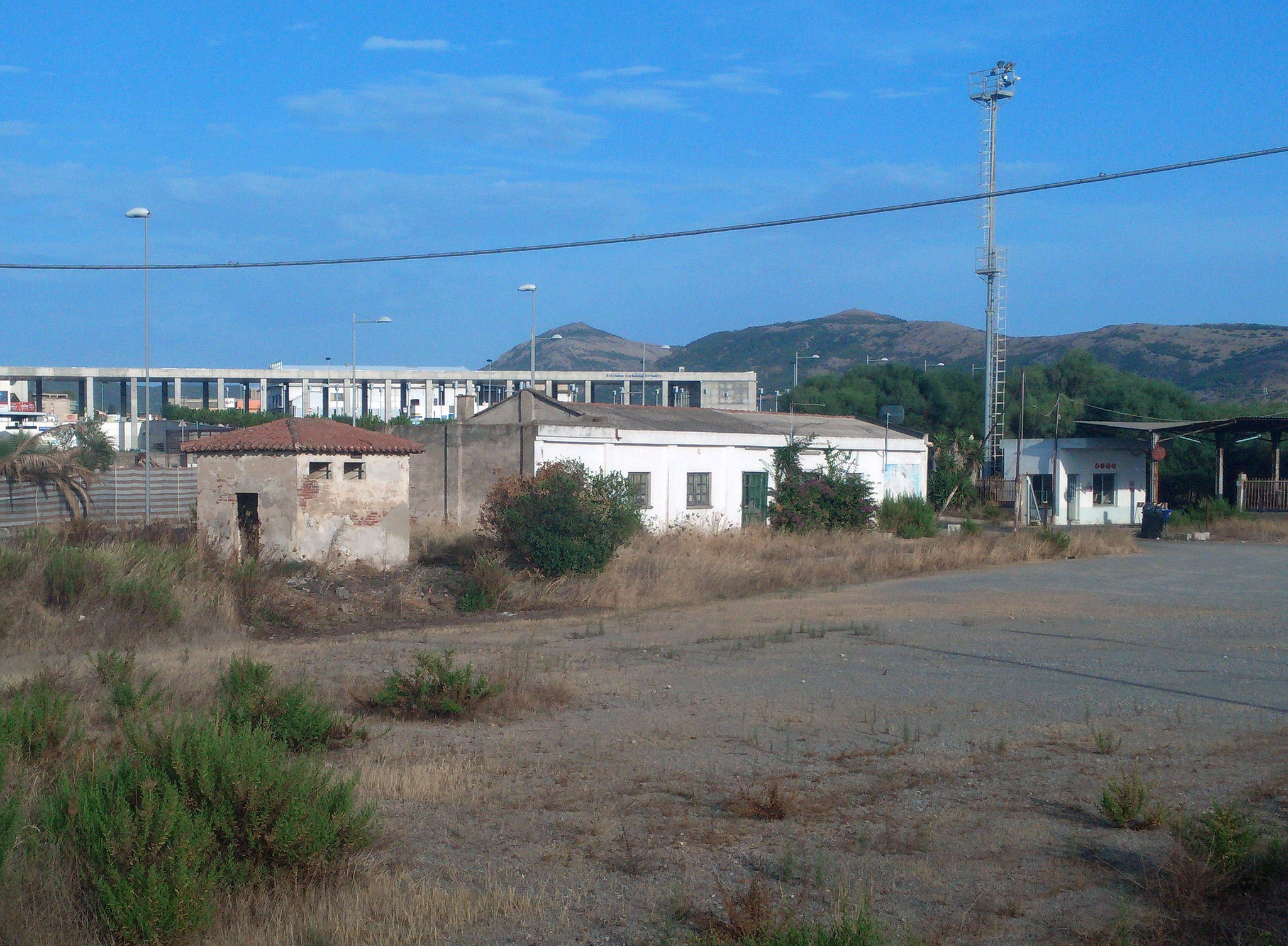 The former FMS station of Carbonia, Sardinia, Italy, along the railway San Giovanni Suergiu-Iglesias, closed in 1974. In the background the Carbonia Serbariu railway and bus station